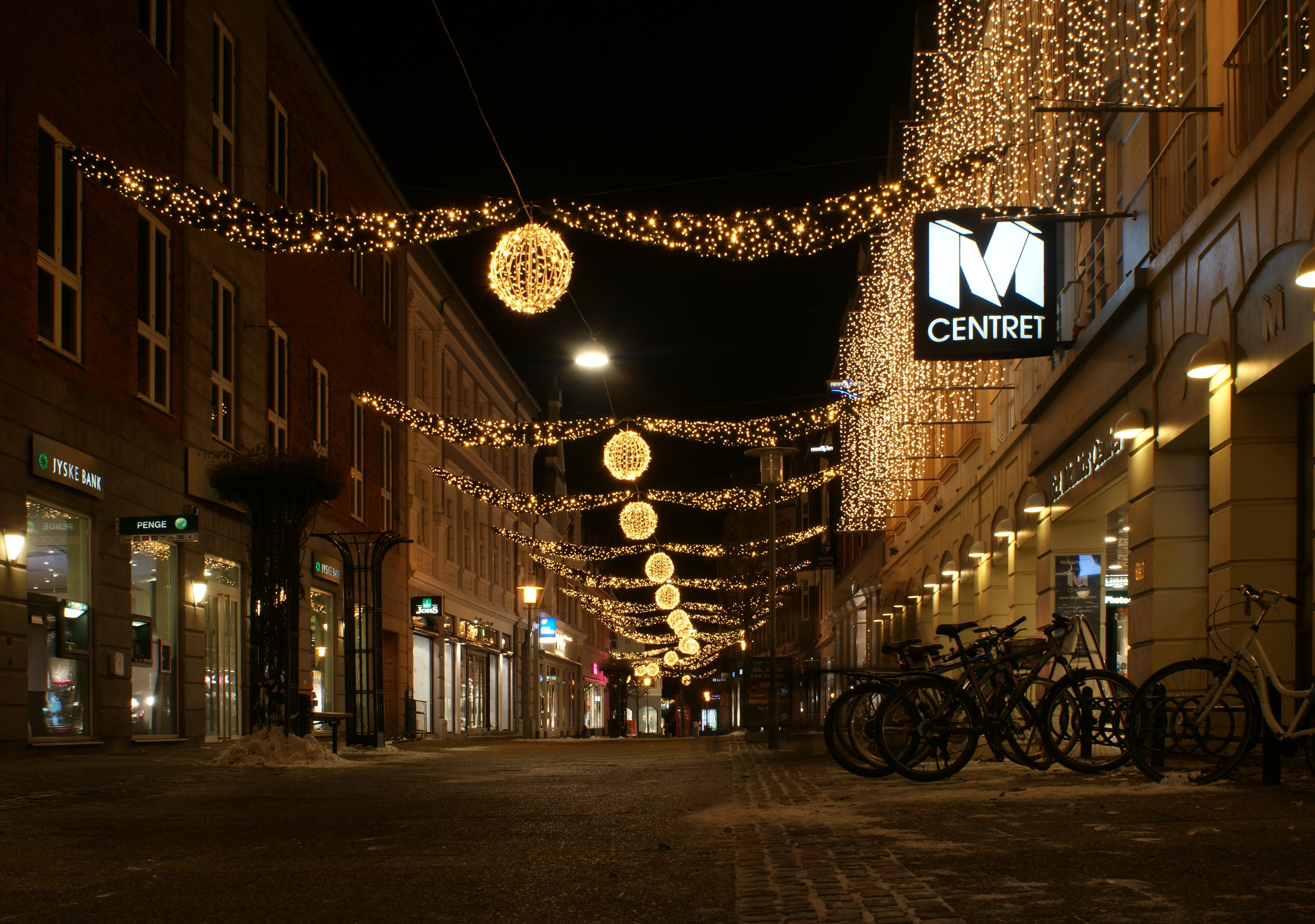 Christmas illumination in Sct. Mathias Gade, Viborg, Denmark. To the right is shown the main entrance to Sct. Mathias Centret, a shopping mall. The street lightning was first used in 2010 and based on LEDs. Some facts according to "Viborg Nyt", Week 48, 1/12 - 7/12 2010 p. 25, Viborgs julebelysning tager hensyn til miljøet: Compared to the previous illumination used in 2009 and before, the LED-based lights will be lead to a reduction in cost for the electricity of 39000 DKK, savings in energy of 29,000 kWh, corresponding to 14.5 ton of CO2. The cost for setting up and putting down the illumination including transportation and VAT was over 500,000 DKK in 2009. The cost of the illumination itself is in excess of 1,000,000 DKK sponsored by the shop owners and Viborg Kommune. Perspective corrected using GIMP. A Manfrotto tripod was used. The pavement material shown was replaced in 2011 with granite bricks imported from China.